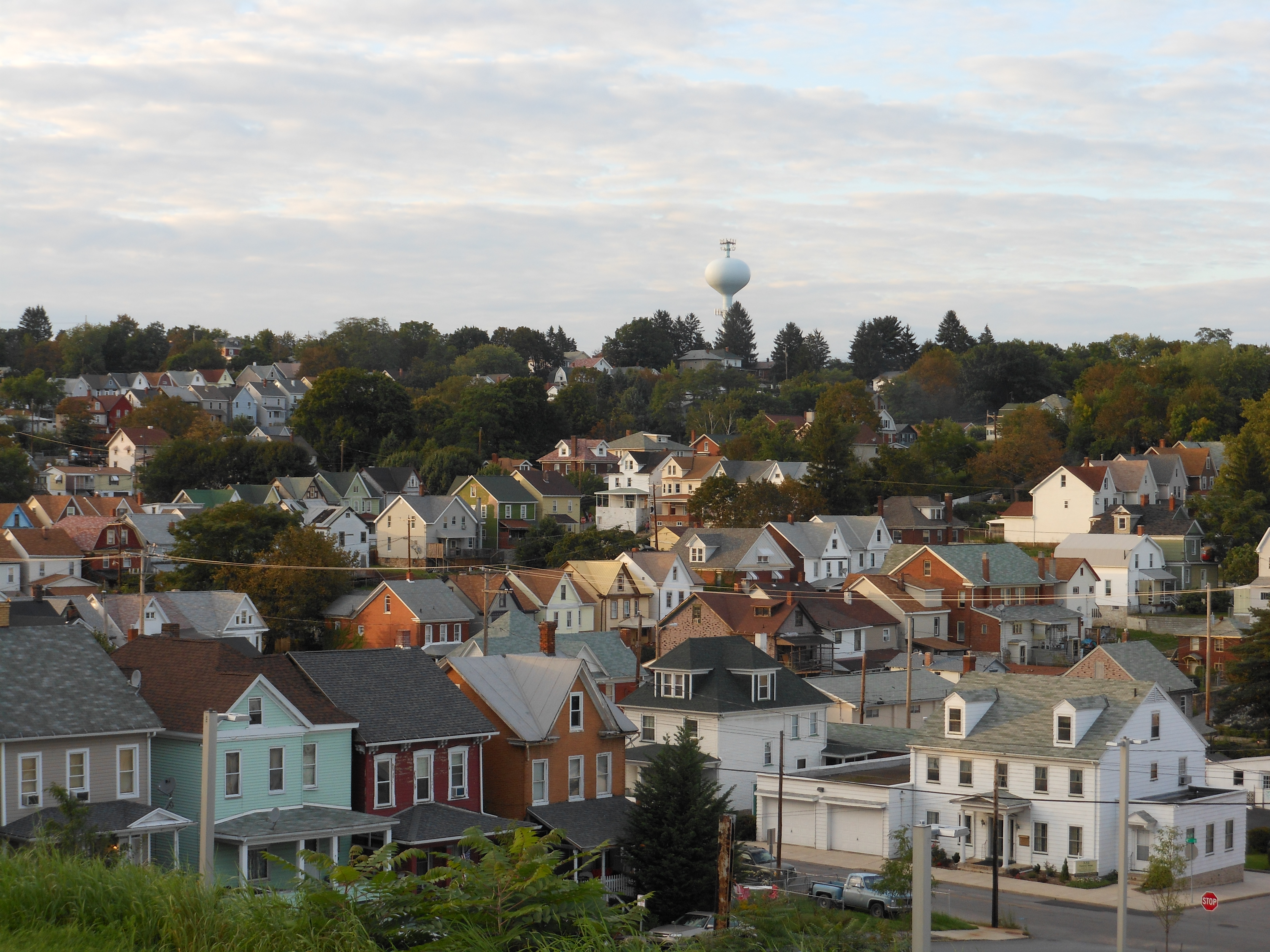 A view of Fairview from Altoona Regional